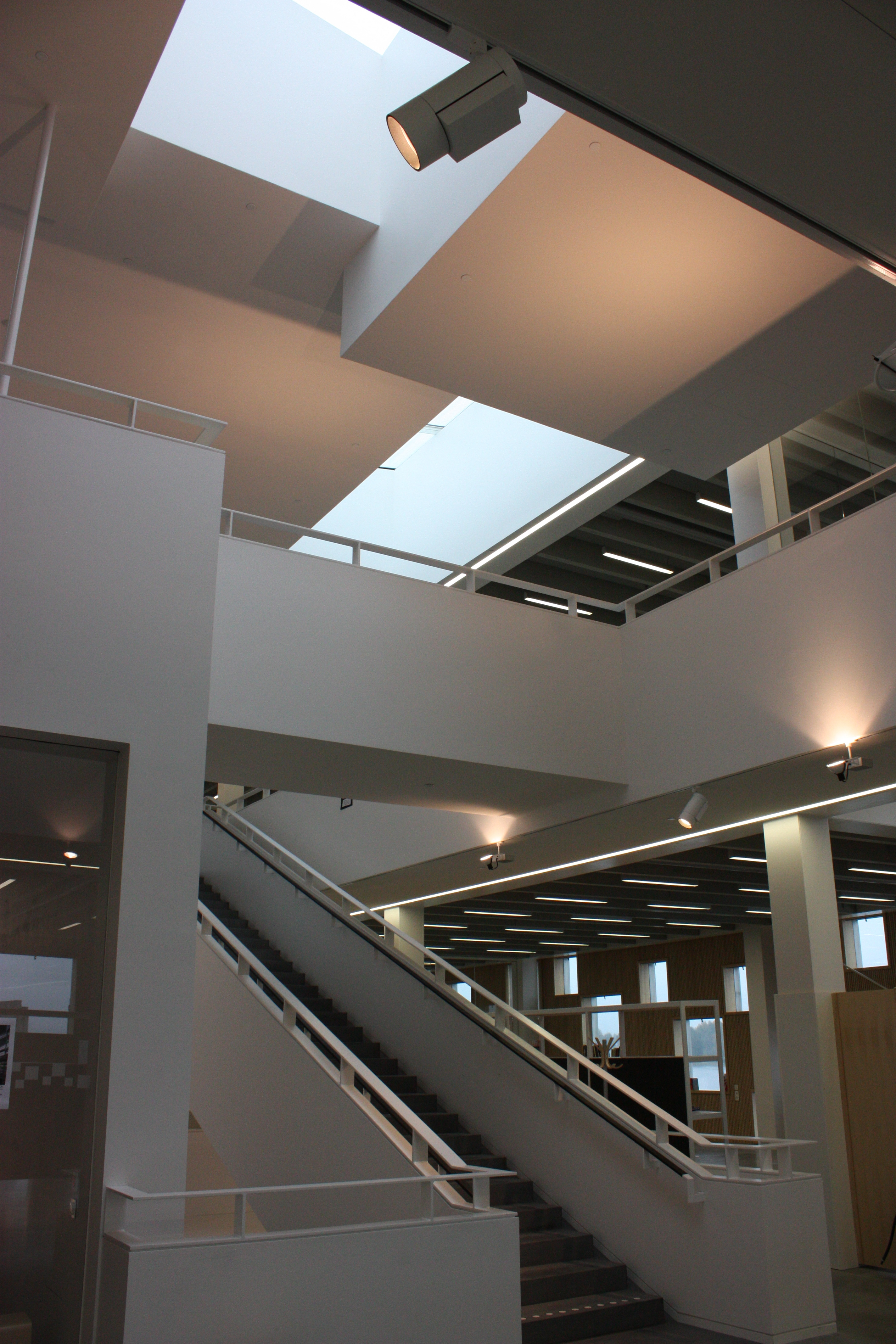 Stairs at Umeå School of Architecture, at Umeå University.